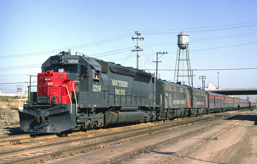 The northbound Cascade at Berkeley station in April 1971